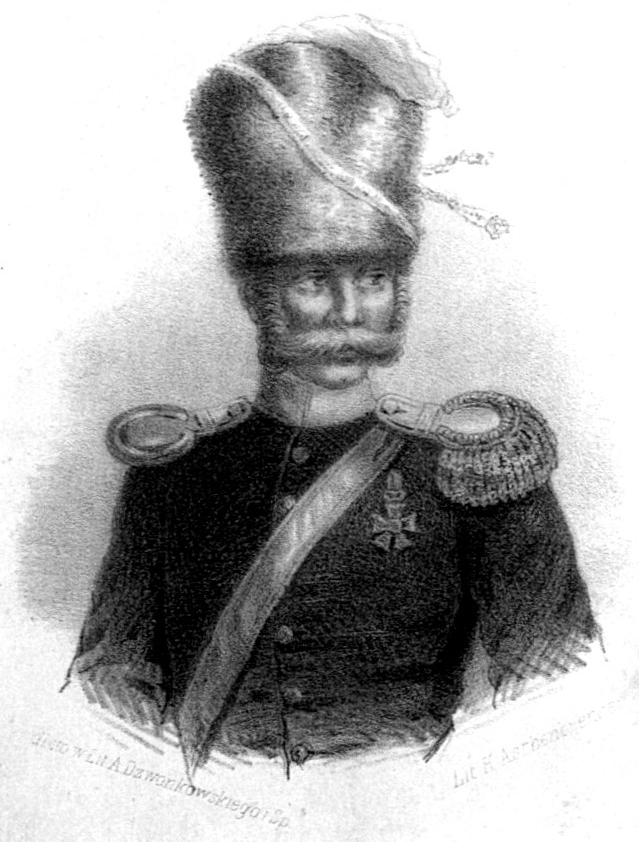 Colonel Berek Joselewicz during the Kościuszko Uprising, 1794, b/w lithograph illustrating 1904 publication of play by the same title written by Zenon Parvi, Kraków, Poland